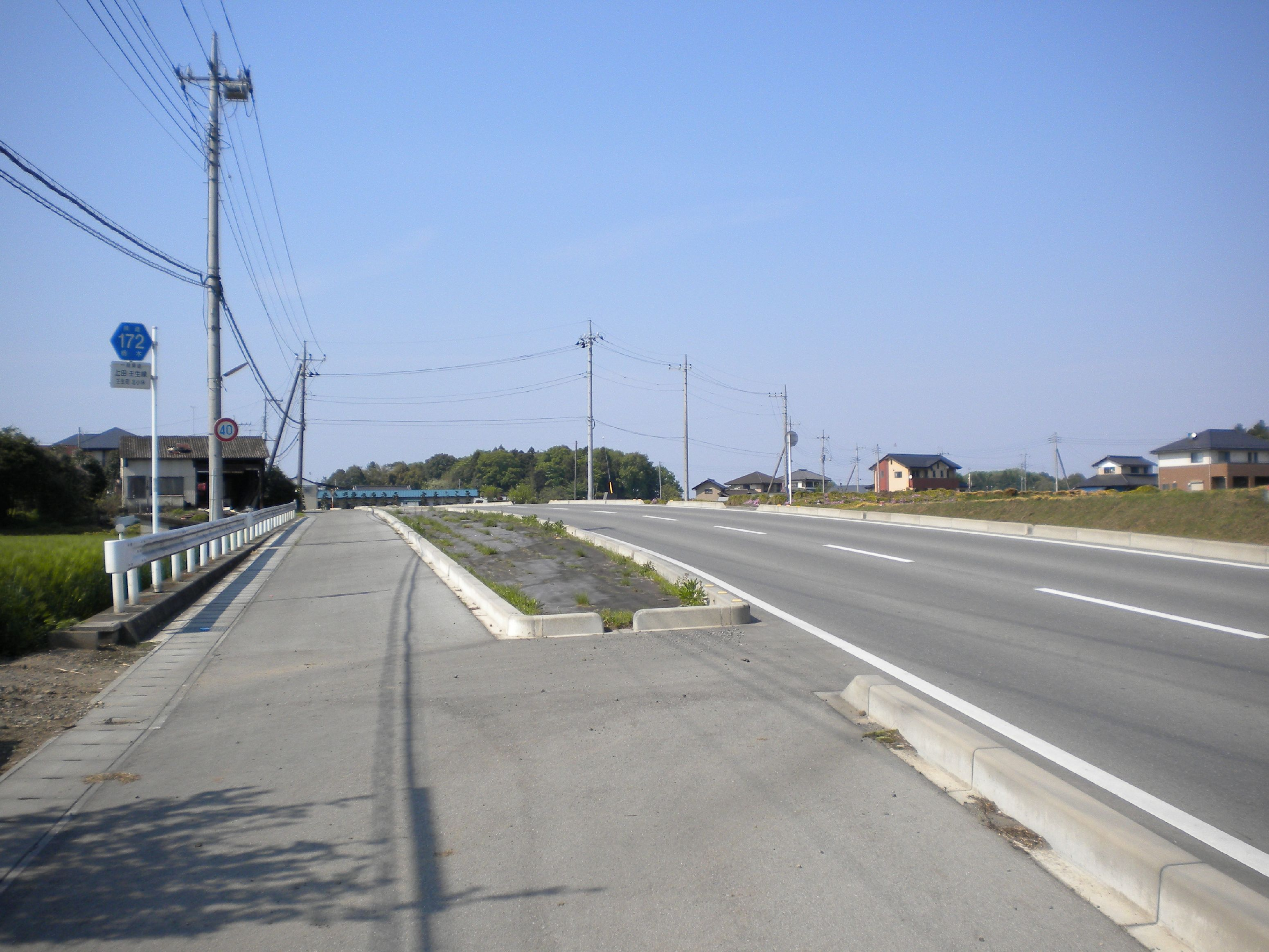 Tochigi prefectural road No.172 on Mibu town